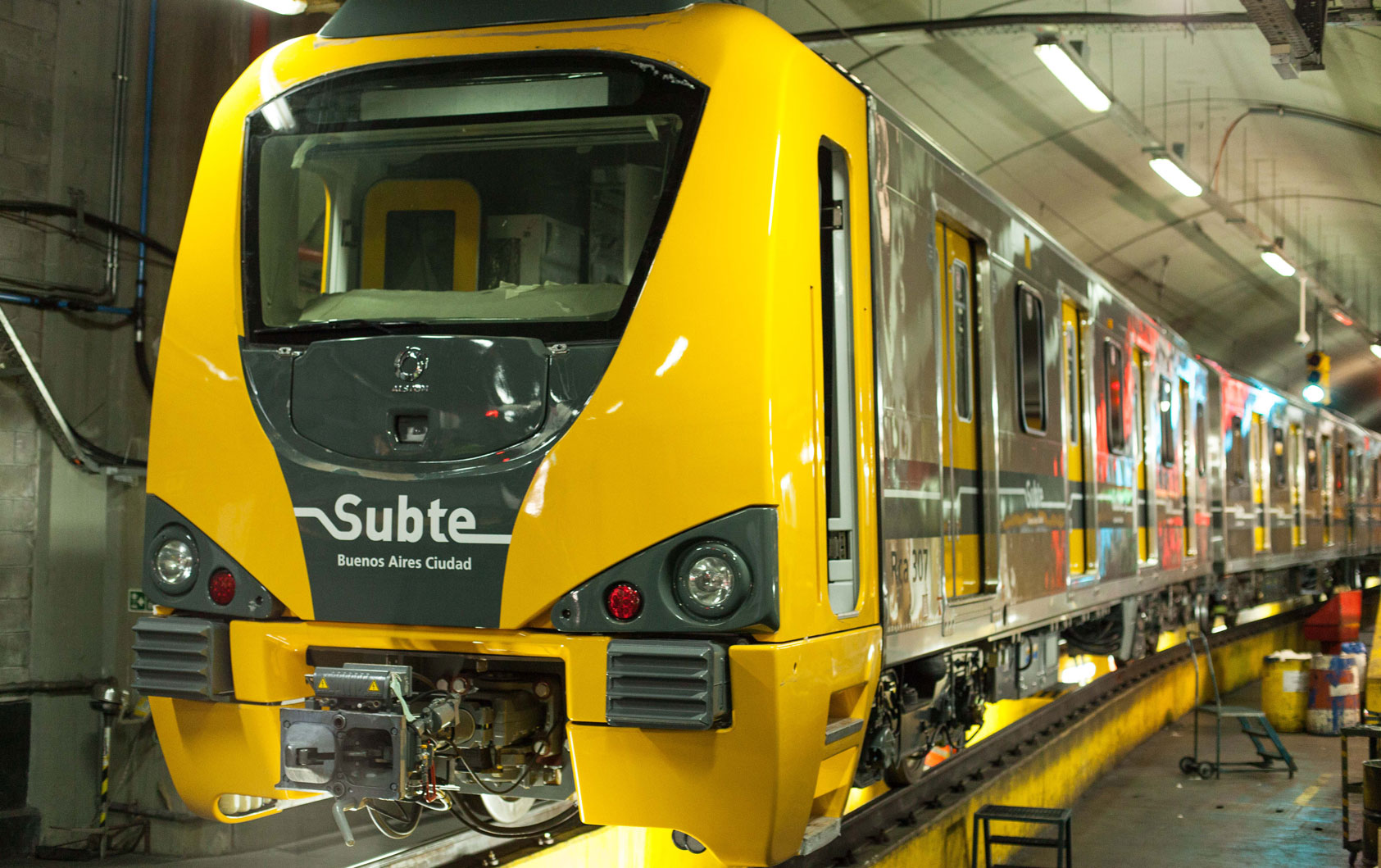 300 Series train in Line H workshops.